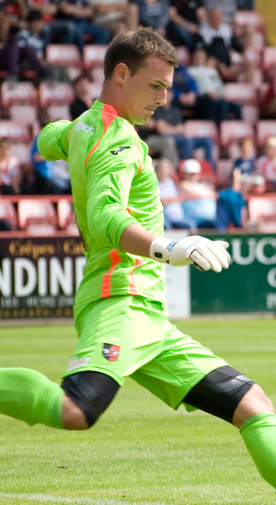 Artur Krysiak playing for Exeter City against F.C. United of Manchester at St James Park, Exeter on 21 July 2012